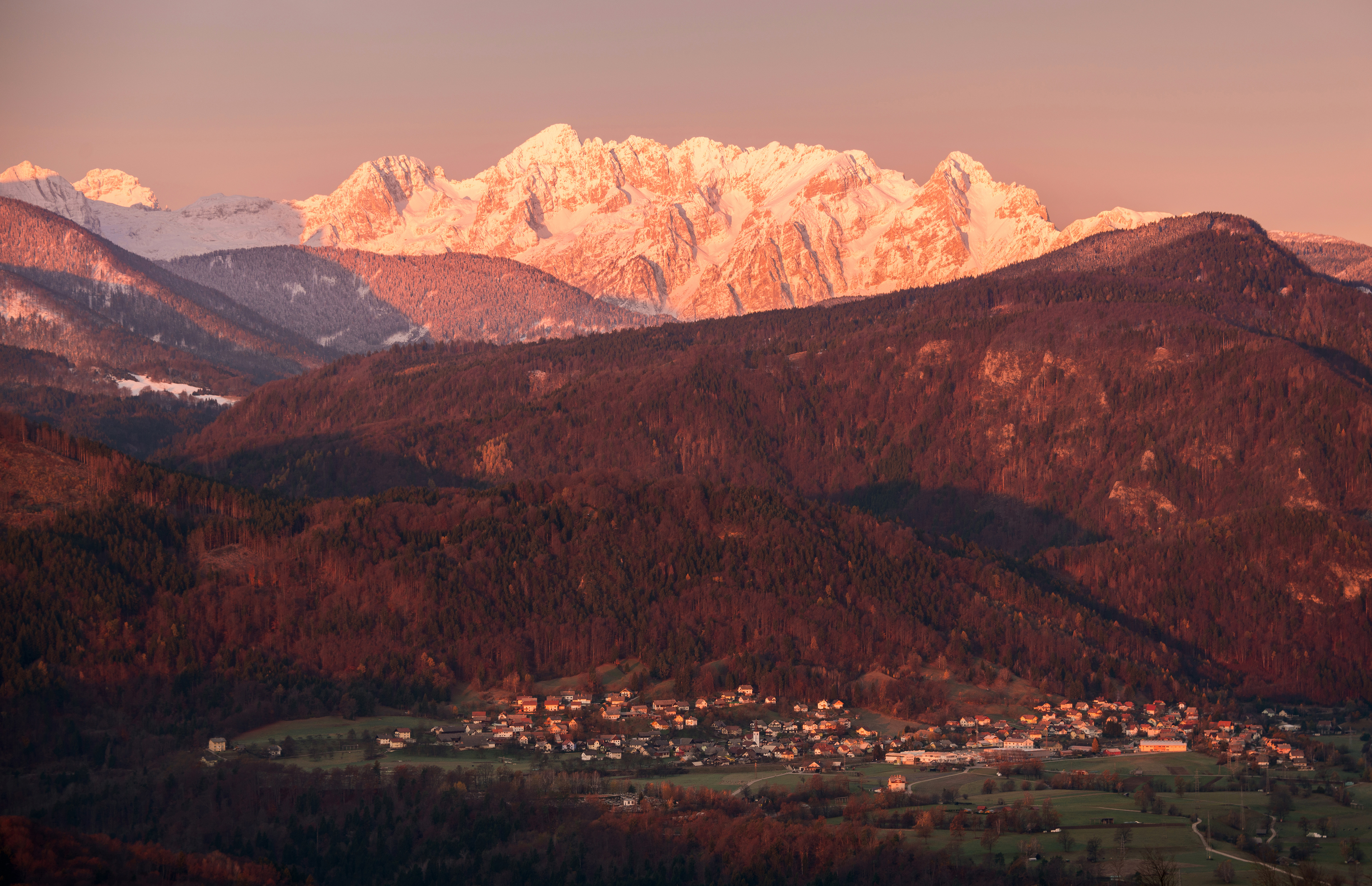 Blejska Dobrava under Julian Alps